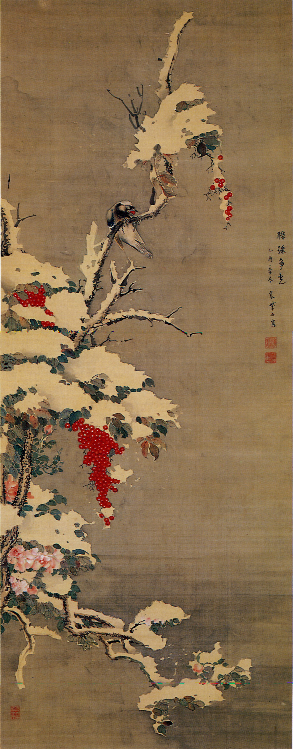 Sō_Shiseki,Flowers_and_Birds_in_the_Snow,A_hanging_scroll,Color_on_silk,Middle_Edo_period,dated_1765,Kobe_City_Museum